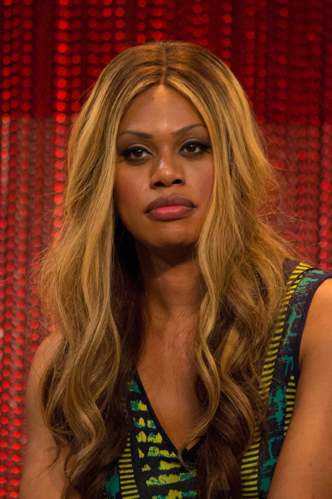 Actress Laverne Cox at The Paley Center For Media's PaleyFest 2014 Honoring "Orange Is The New Black"